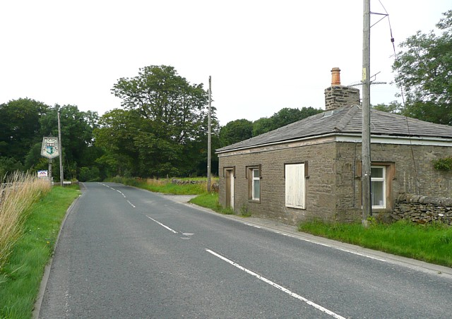 The B6480 and Turnpike House, Settle The old toll house was sited to catch southbound traffic from Lodge Road on the right and a lane from a mill on the left.